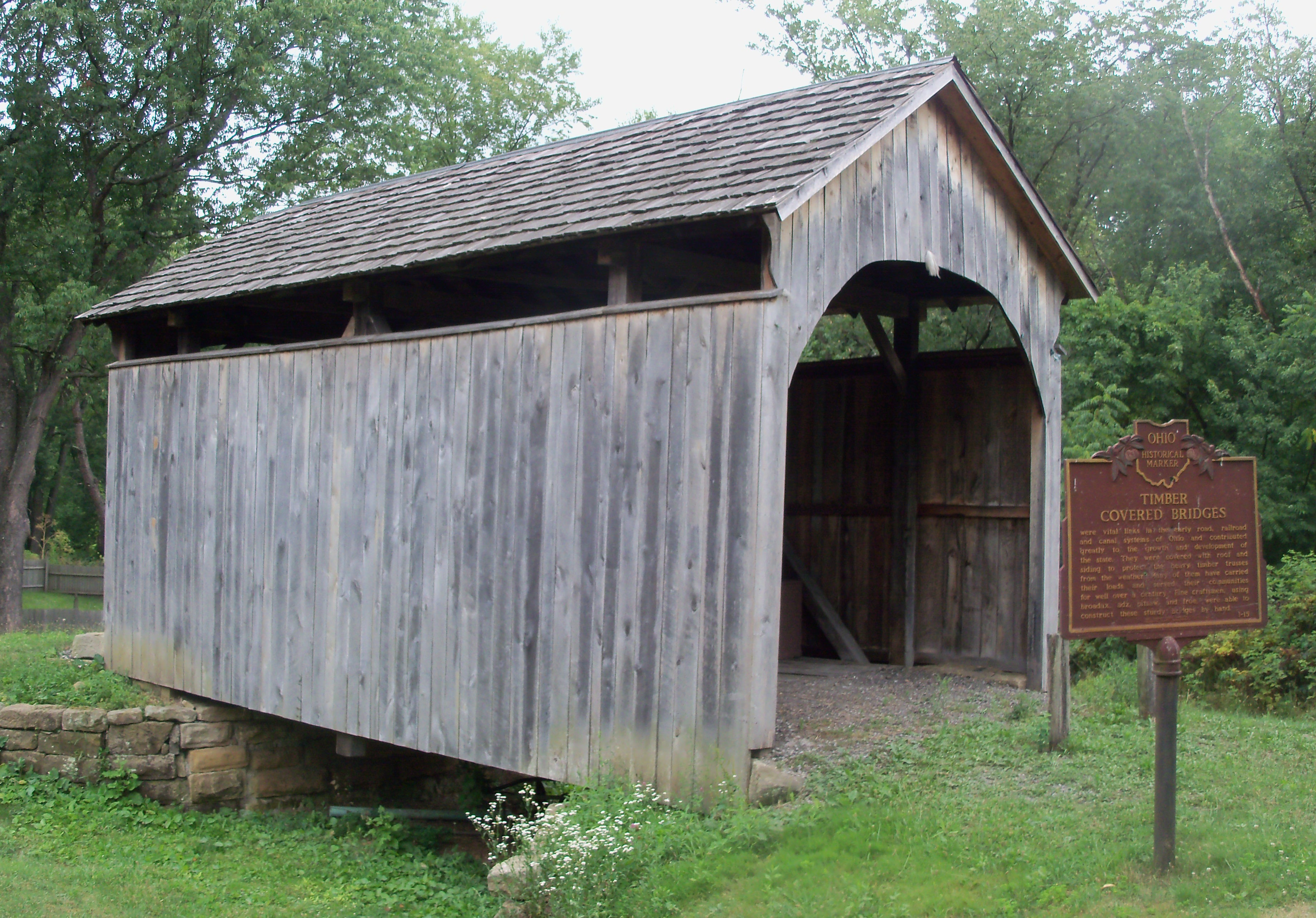 Church Hill Road Covered Bridge, is a site on the National Register of Historic Places in Columbiana County, Ohio.